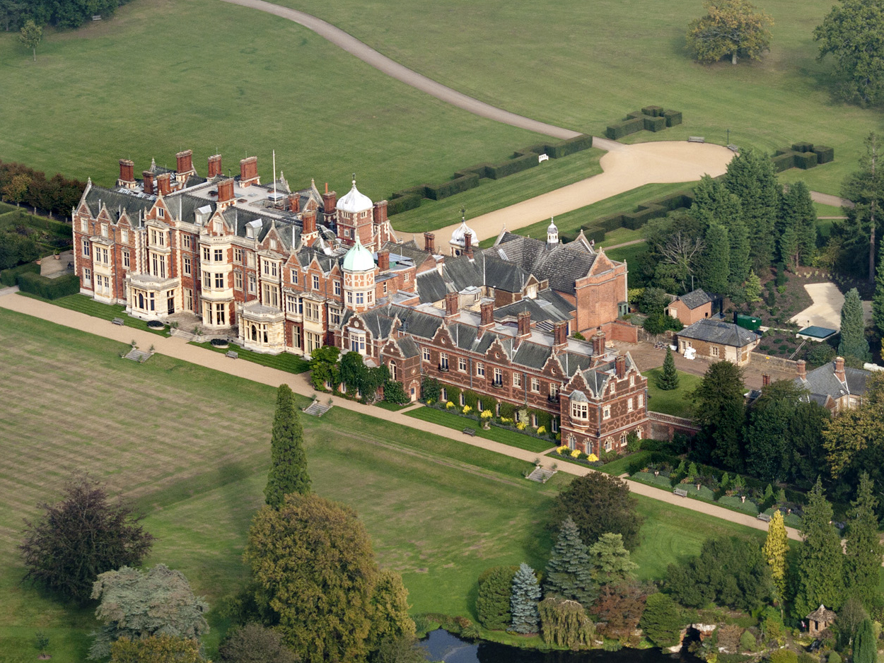 Aerial photo of Sandringham House, Norfolk